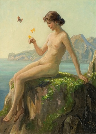 Girl and butterflies